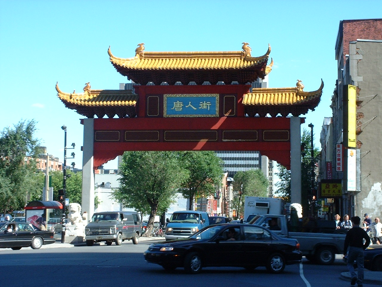 The gate to Montreal's chinatown. Snapshot by User:aarchiba.